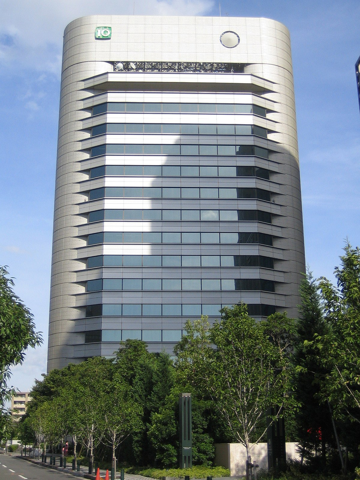 讀賣テレビ放送（よみうりテレビ） 社屋外観 （大阪府大阪市中央区城見2-2-33） Yomiuri Telecasting Corporation (Yomiuri TV) Head Office (Osaka City, Japan) Photo by Mangos